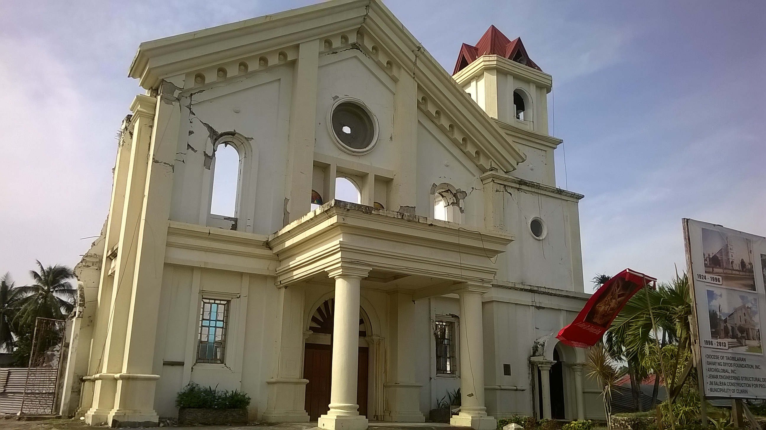 Façade and adjoining belfry, remains of church, Clarin Bohol